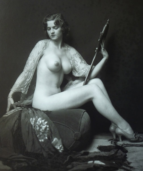 Original photographic print from submittor's personal collection. Original photographed in 1920s by Alfred Cheney Johnston (died 1971).